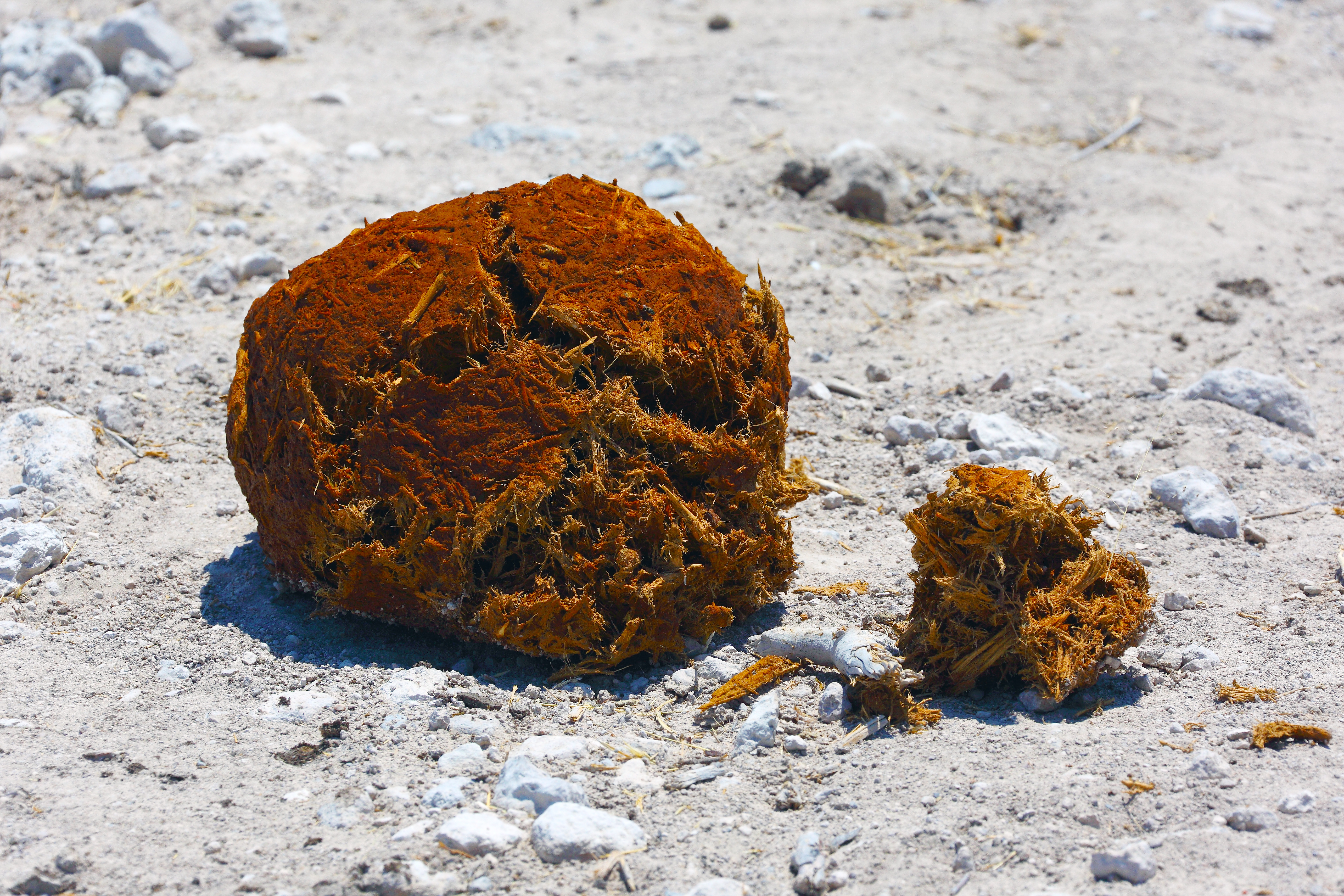 Elephant feces (dung) in the wildlife at the Koinachas Fountain waterhole, near fort Namutoni (Namibia).